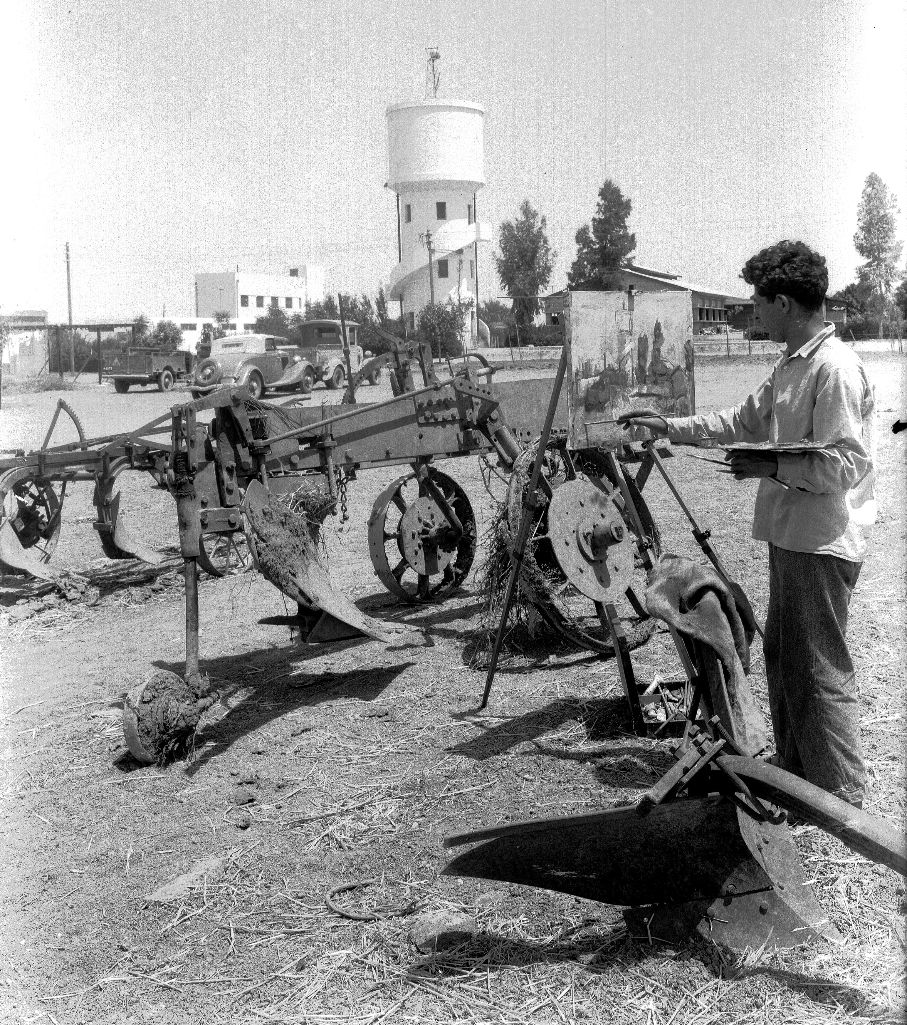 KIBBUTZ MEMBER AHARON GILADI PAINTING DURING HIS FREE TIME IN THE YARD OF KIBBUTZ AFIKIM. אהרון גלעדי מצייר בקיבוץ אפיקים בבקעת הירדן.